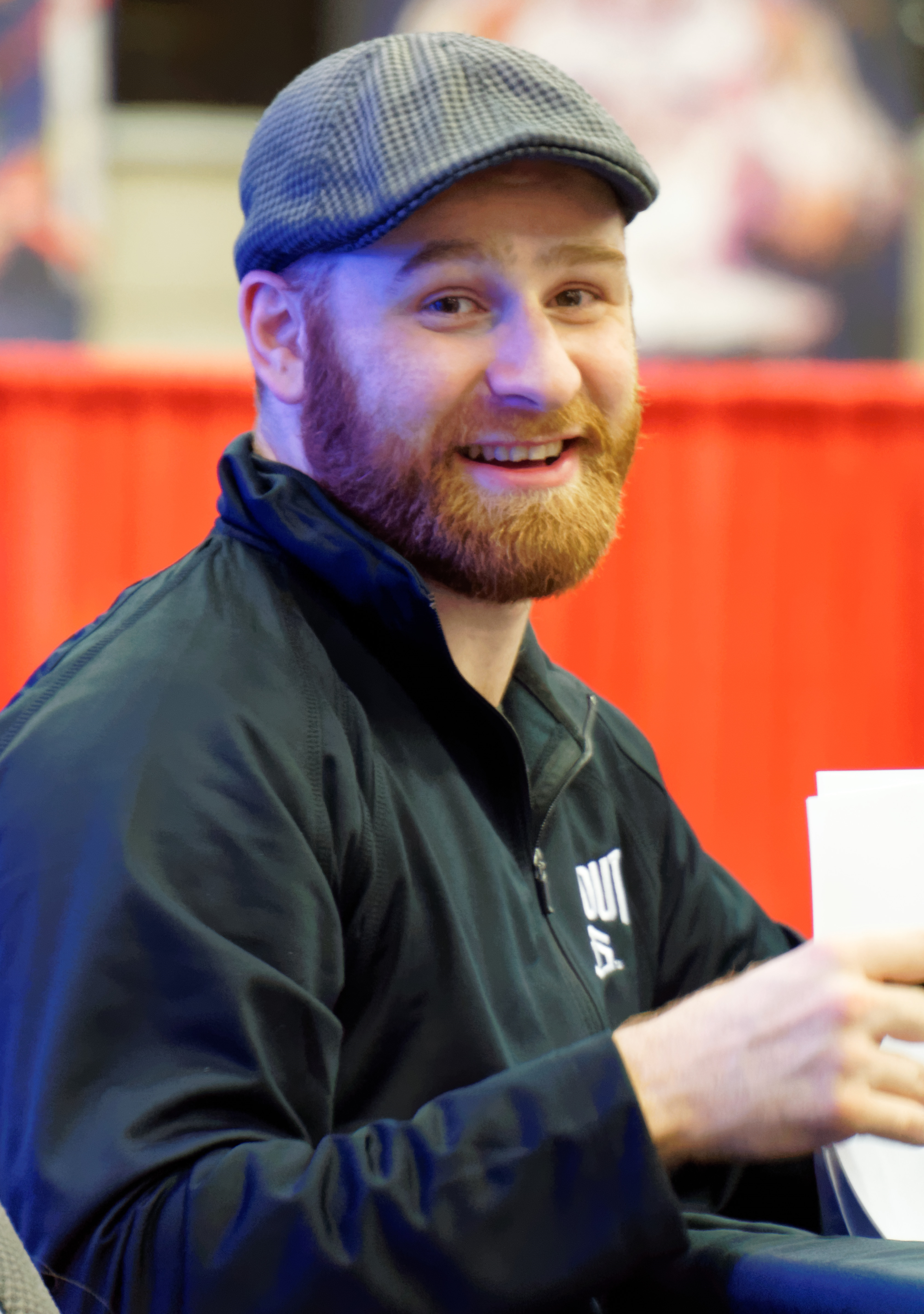 Sami Zayn at WrestleMania 32 Axxess in March 2016.